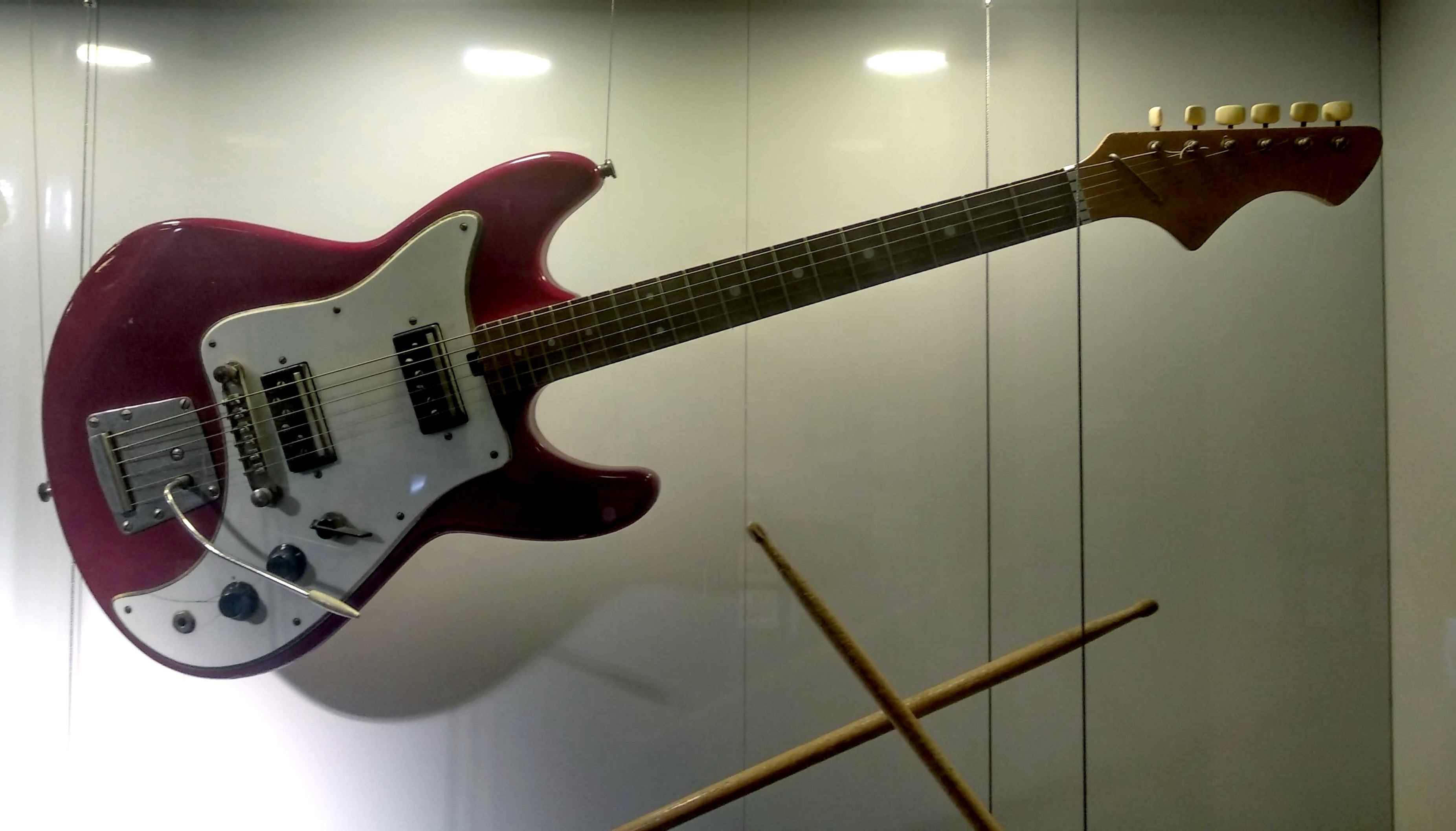 Electric guitar, six-string, double humbucker pickups (HH), vibrato ("trem") system.